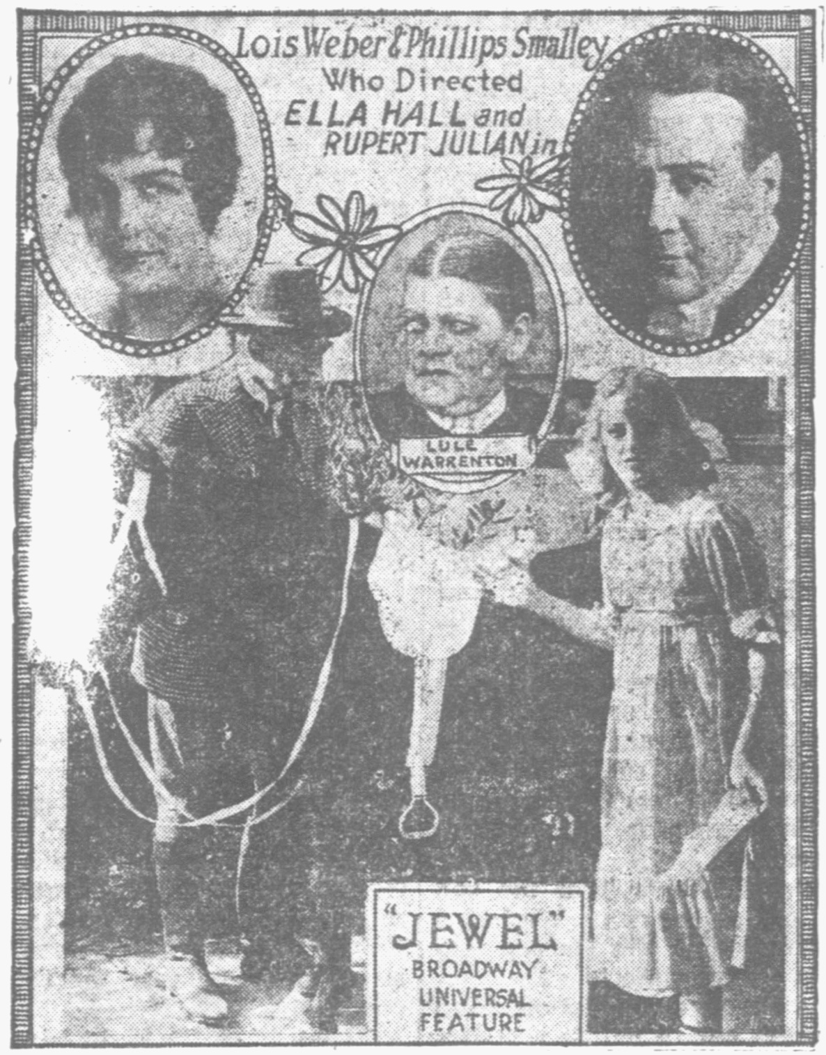 Jewel poster from a newspaper